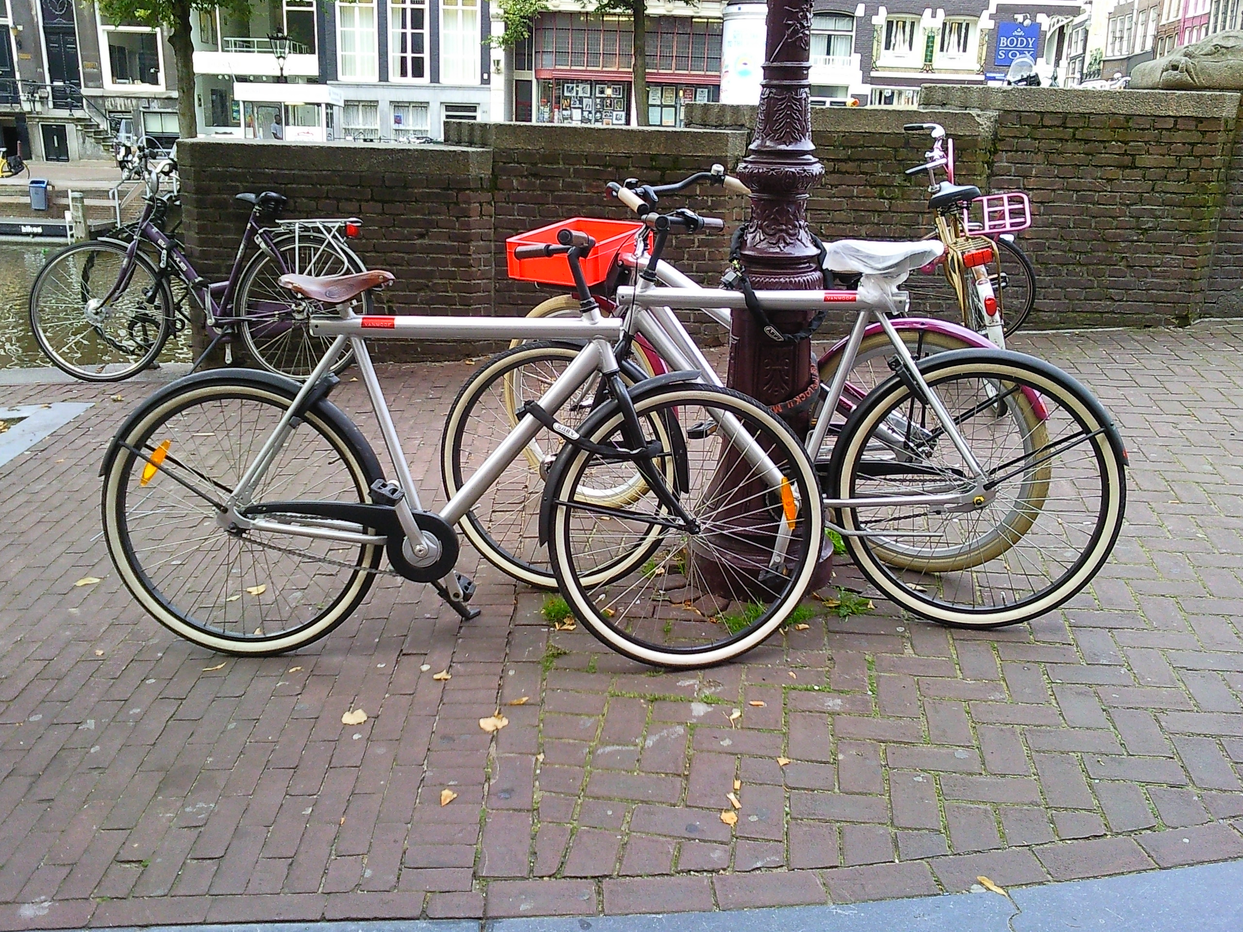 Two male versions of the Van Moof bike.